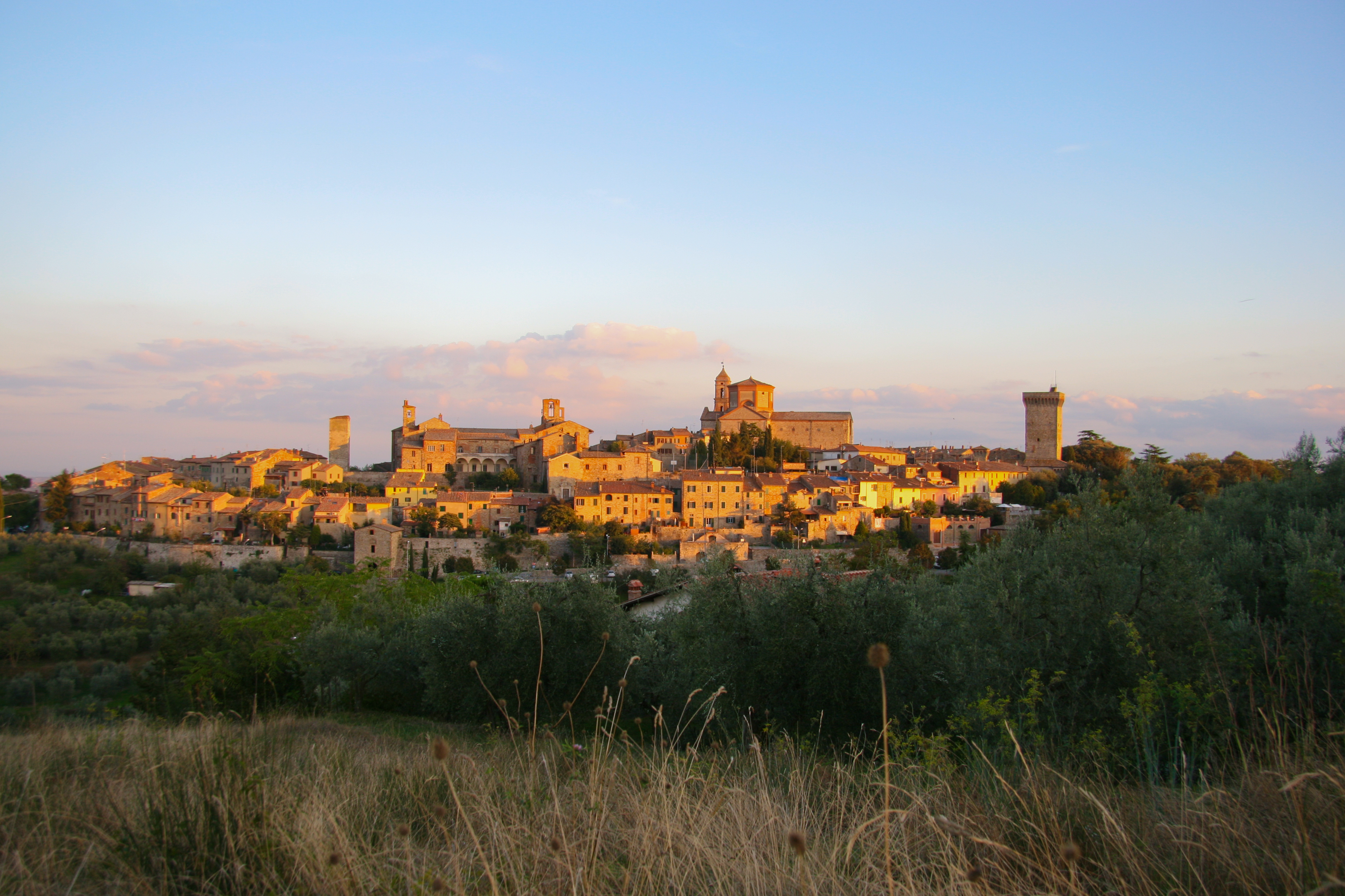 The town of Lucignano viewed from the florentine fortress